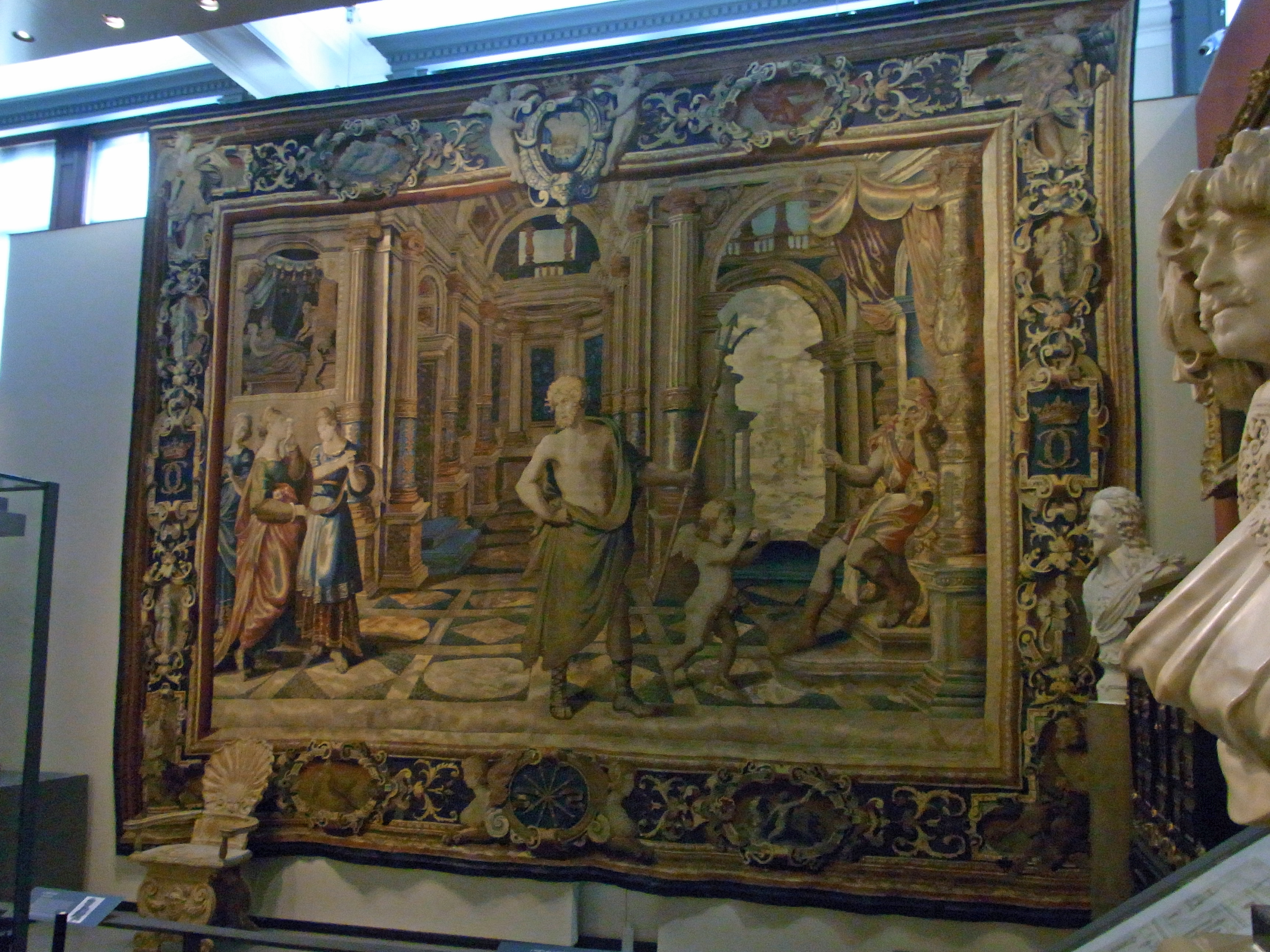 Mortlake Tapestry 'Vulcan and Venus; Neptune and Cupid plead for the lovers'; Wool, silk and metal thread; Height: 453 cm, Width: 578 cm; Museum no. T.170-1978; description item record at V&A